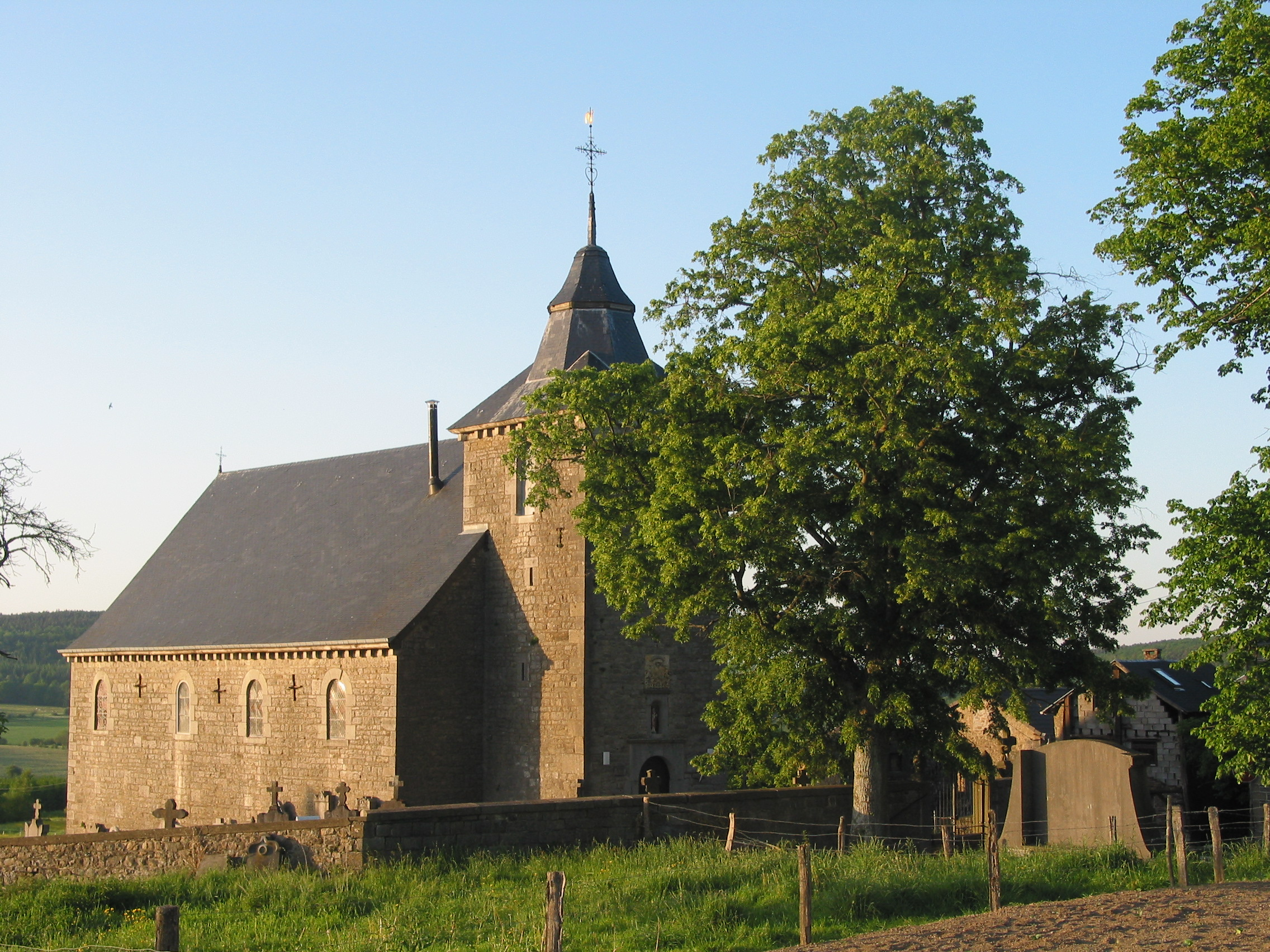 Fisenne, Érezée, Belgium: St. Remigius' chapel (18th century).